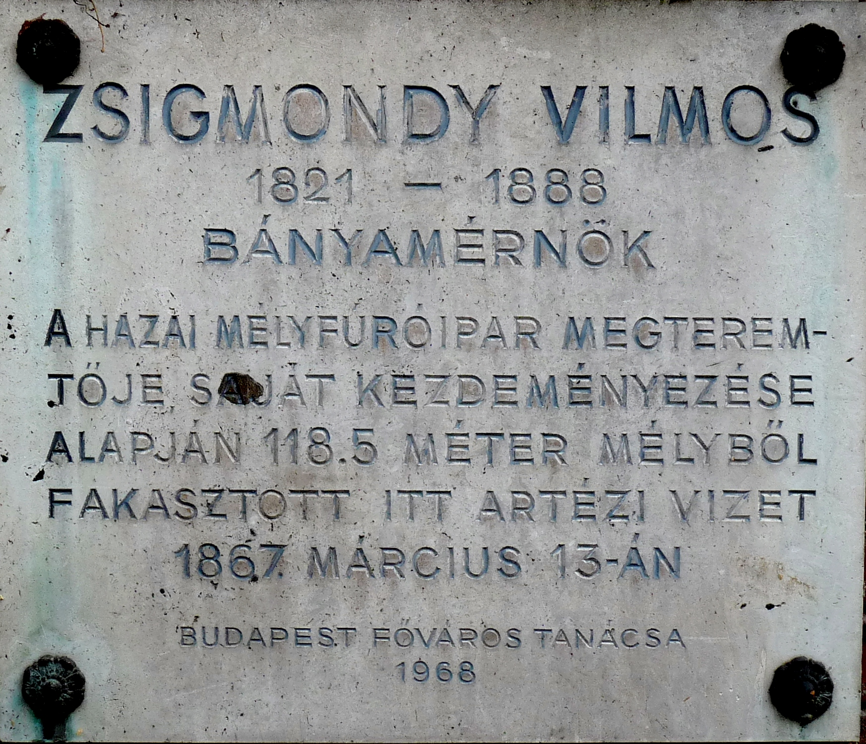 Commemorative plaque to Mr. Vilmos Zsigmondy (1821-1888) Hungarian mining engineer, a proponent and practiser of drilling for the artesian wells in Hungary. (Budapest, District XIII, Margaret Island, Japanese garden).